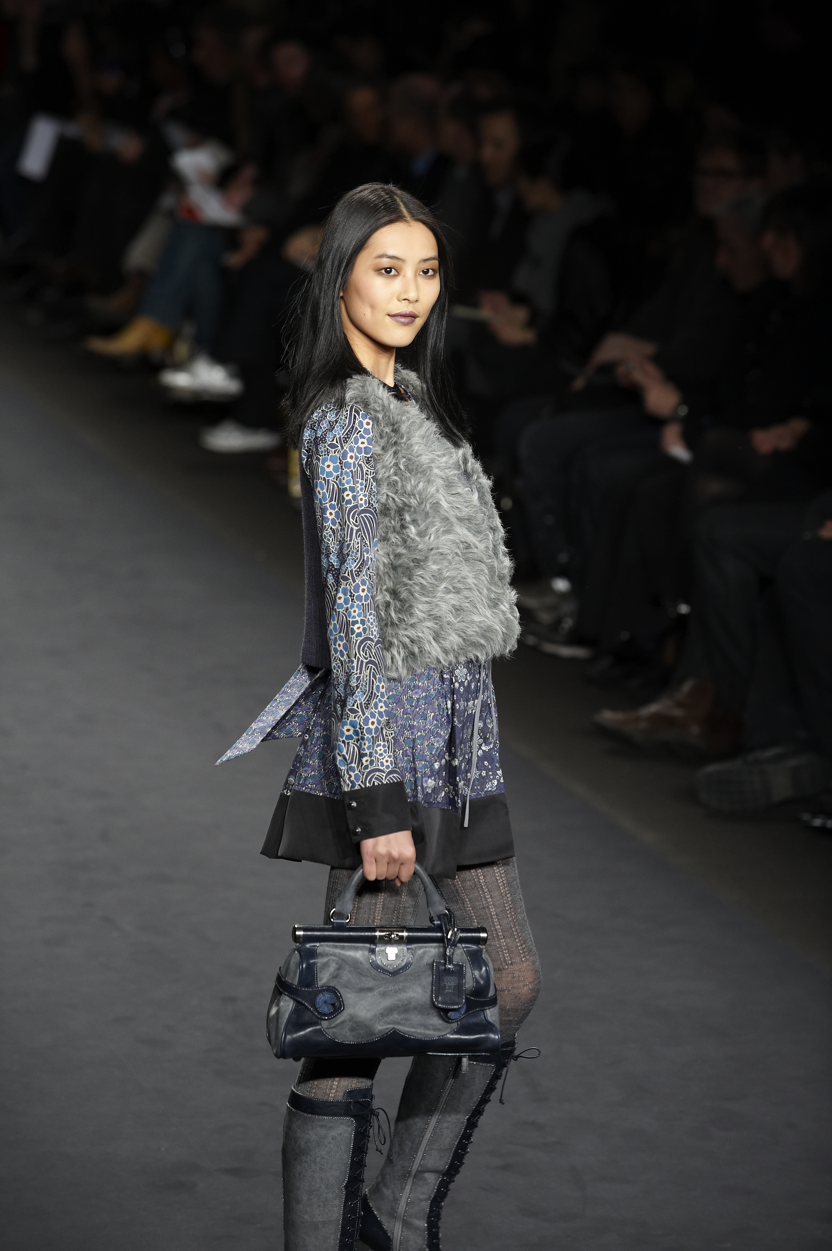 A model walks the runway at the Anna Sui Fall/Winter 2010 show at New York Fashion Week, February 2010.